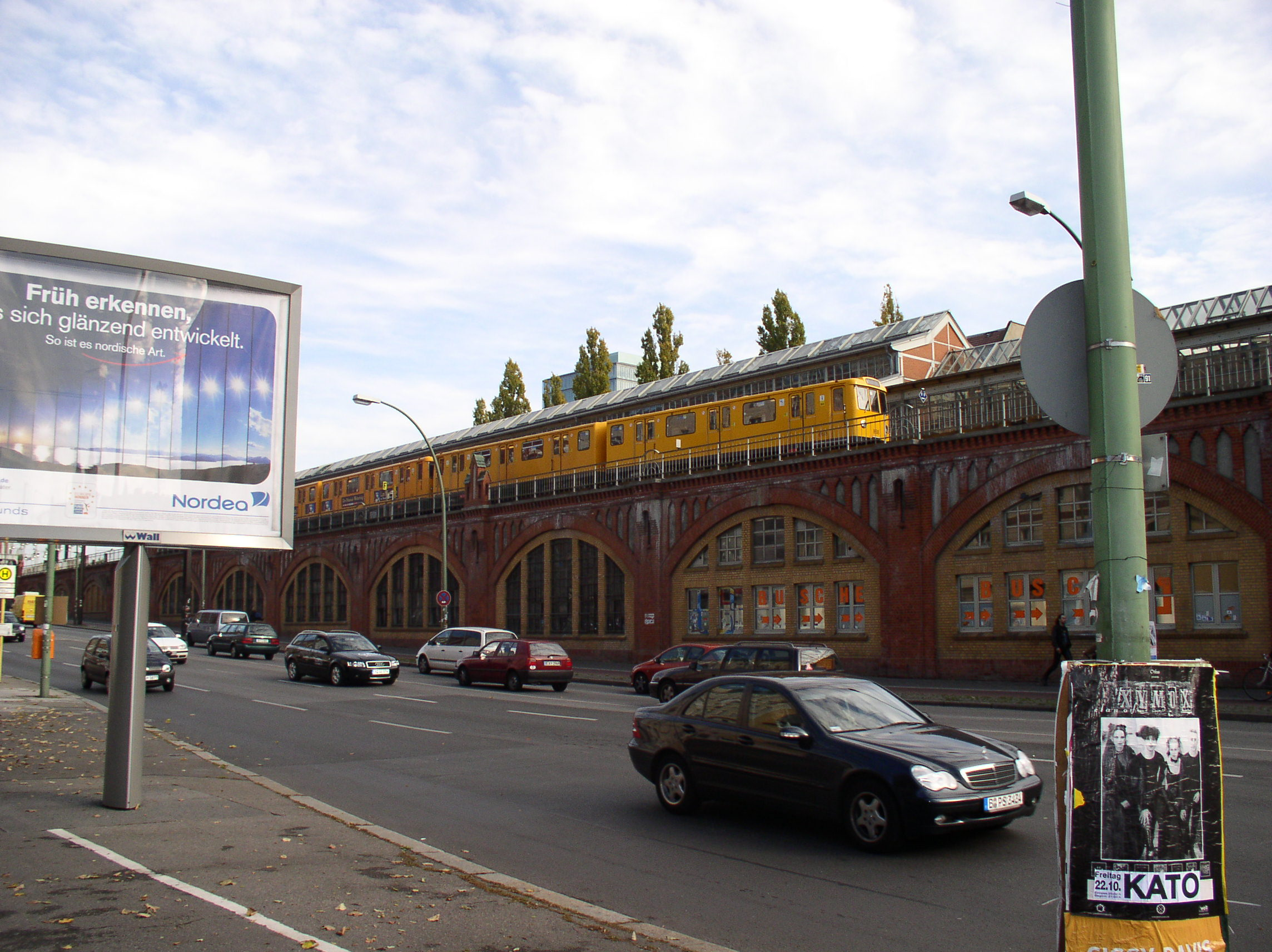 Berlin subway line 1, near Warschauer Straße terminal